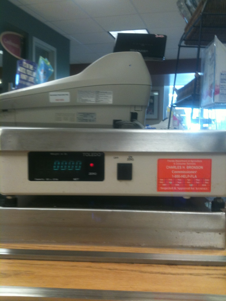 This is an image of a Mettler Toledo scale at the checkout in the cafeteria at Fawcett Memorial Hospital in Port Charlotte, Florida. This image includes an approval seal from the Florida Department of Agriculture and Consumer Services Bureau of Weights and Measures. This is a remake of File:Inspected scale.jpg.